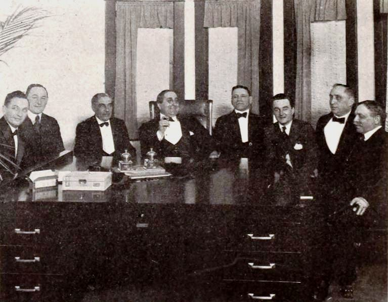 Film makers, theater owners,producers, and actors, from the left: Sol Lesser, Mike Gore, Oscar Grosberg, Louis B. Mayer, Adolph Linick, Rudolph Cameron, M. L. Finkelstein, and "Colonel" William Nicholas Selig, on page 77 of the April 3, 1920 Exhibitors Herald.